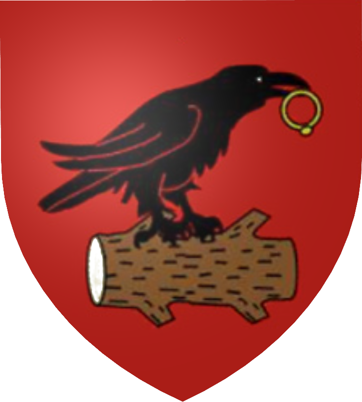 Korwin Coat of ArmsA derivative work of Image:Herb Korwin.jpg and tagged with the same license